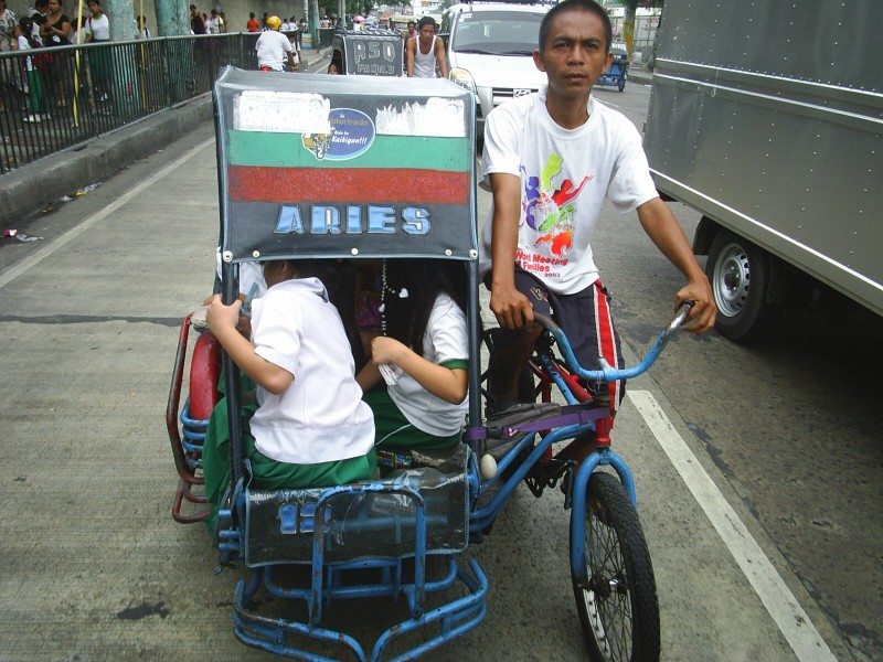 School children getting a ride on a pedicab; Tayuman Street, Tondo, Manila.